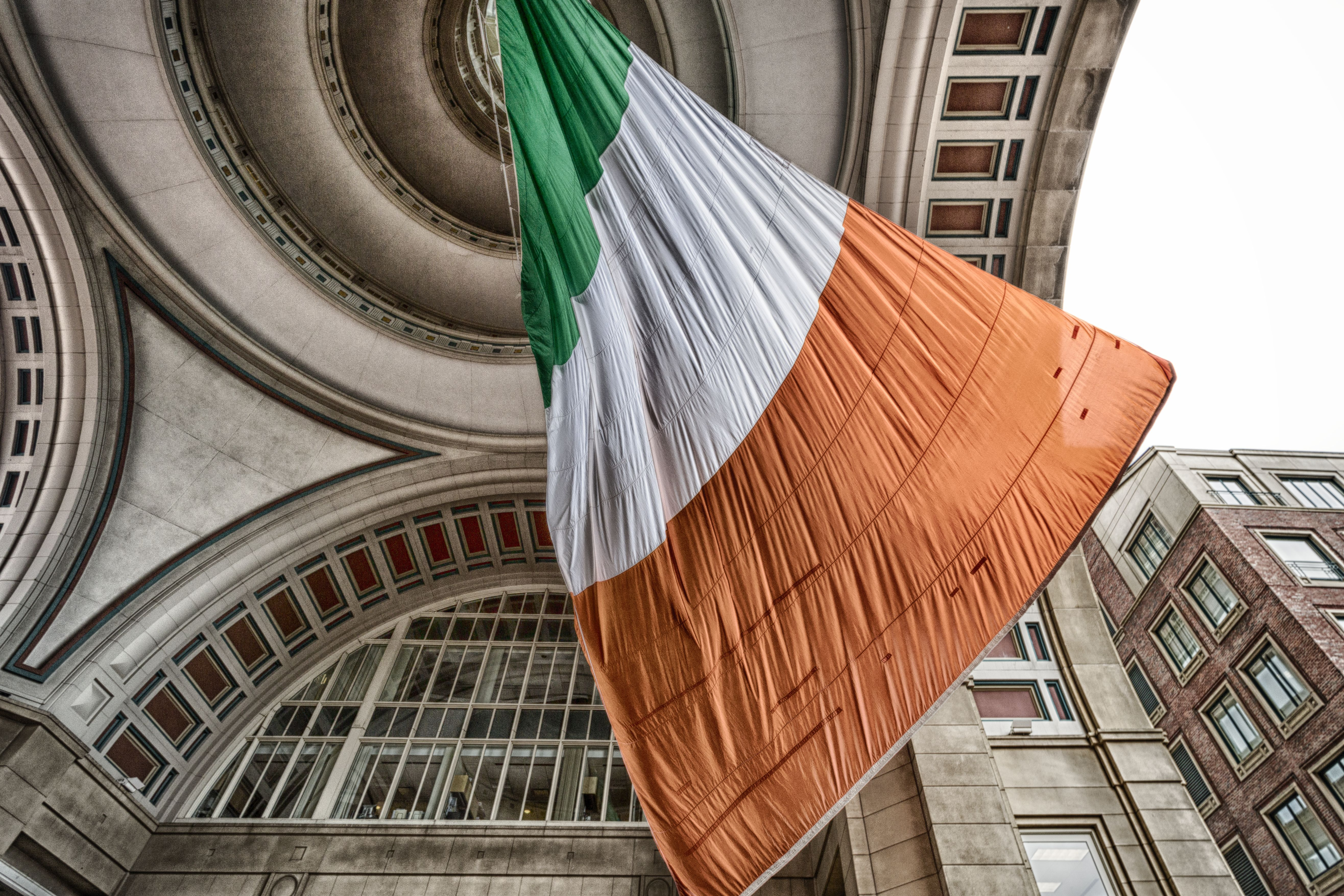 World's largest Irish flag--swaying in the wind (Boston, MA)